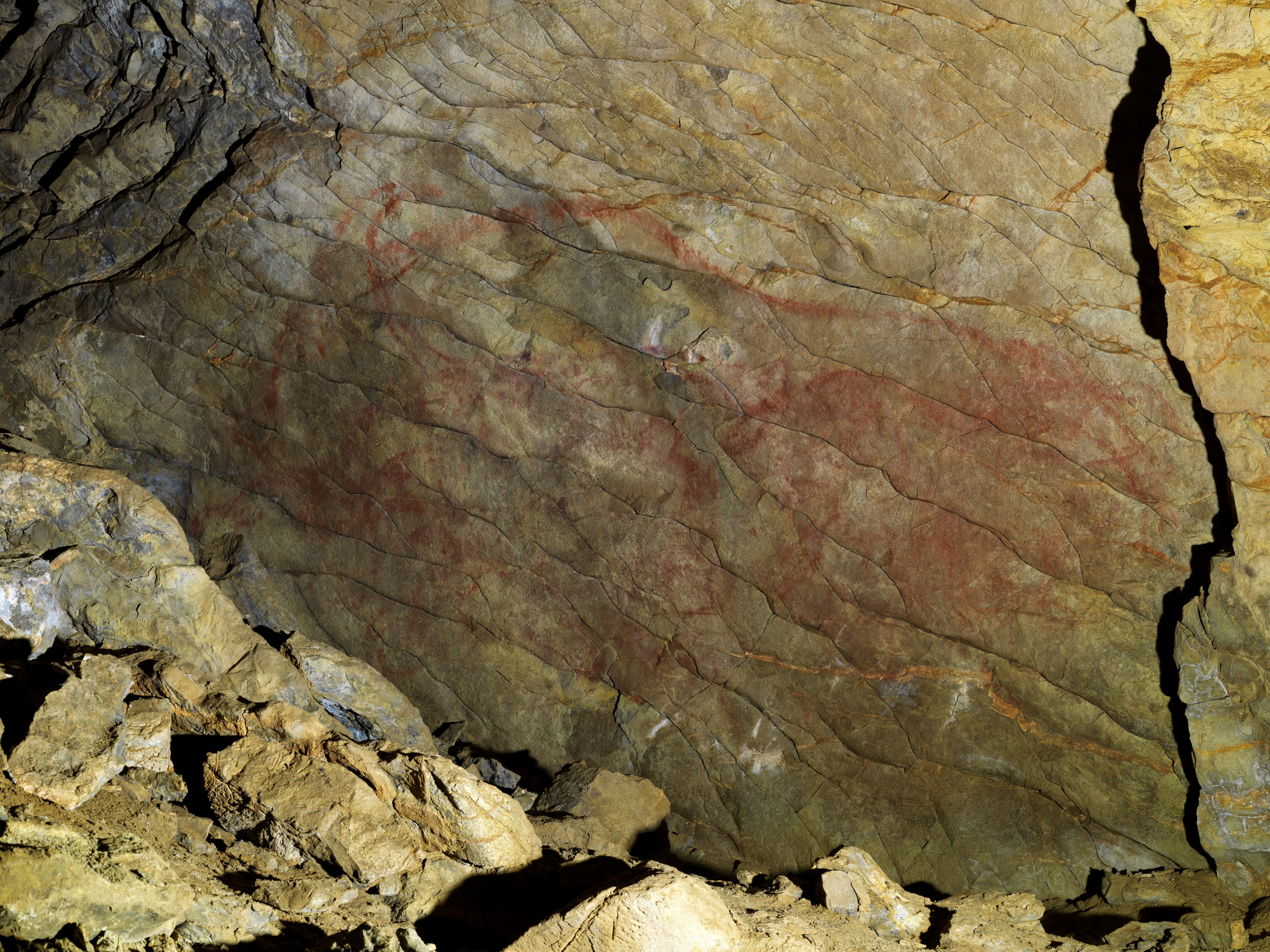 This big red bison is almost three meters long. It is in an upper room apart from the other figures. It seems that it may belong to a time before the rest of the figures.